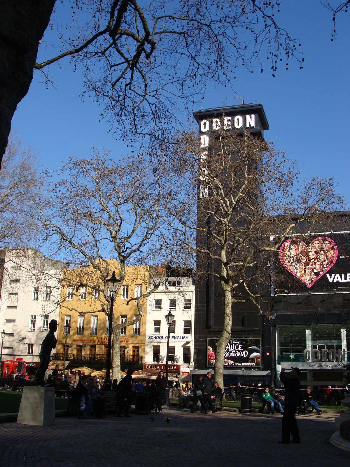 The Odeon cinema, Leicester Square In the foreground a tourist is taking a photo of a statue of Charlie Chaplin.